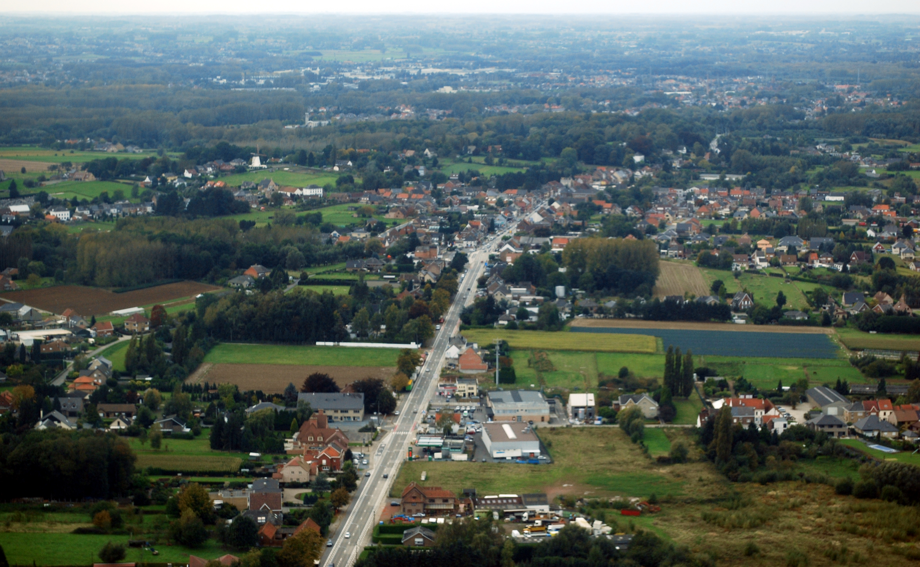 Aerial photograph from the East along the Brusselbaan (national road N9) at Hekelgem (commune of Affligem, Belgium). Nikon D60 f=55mm f/7.1 1/200s, reframing and color correction in Adobe Photoshop 4.0